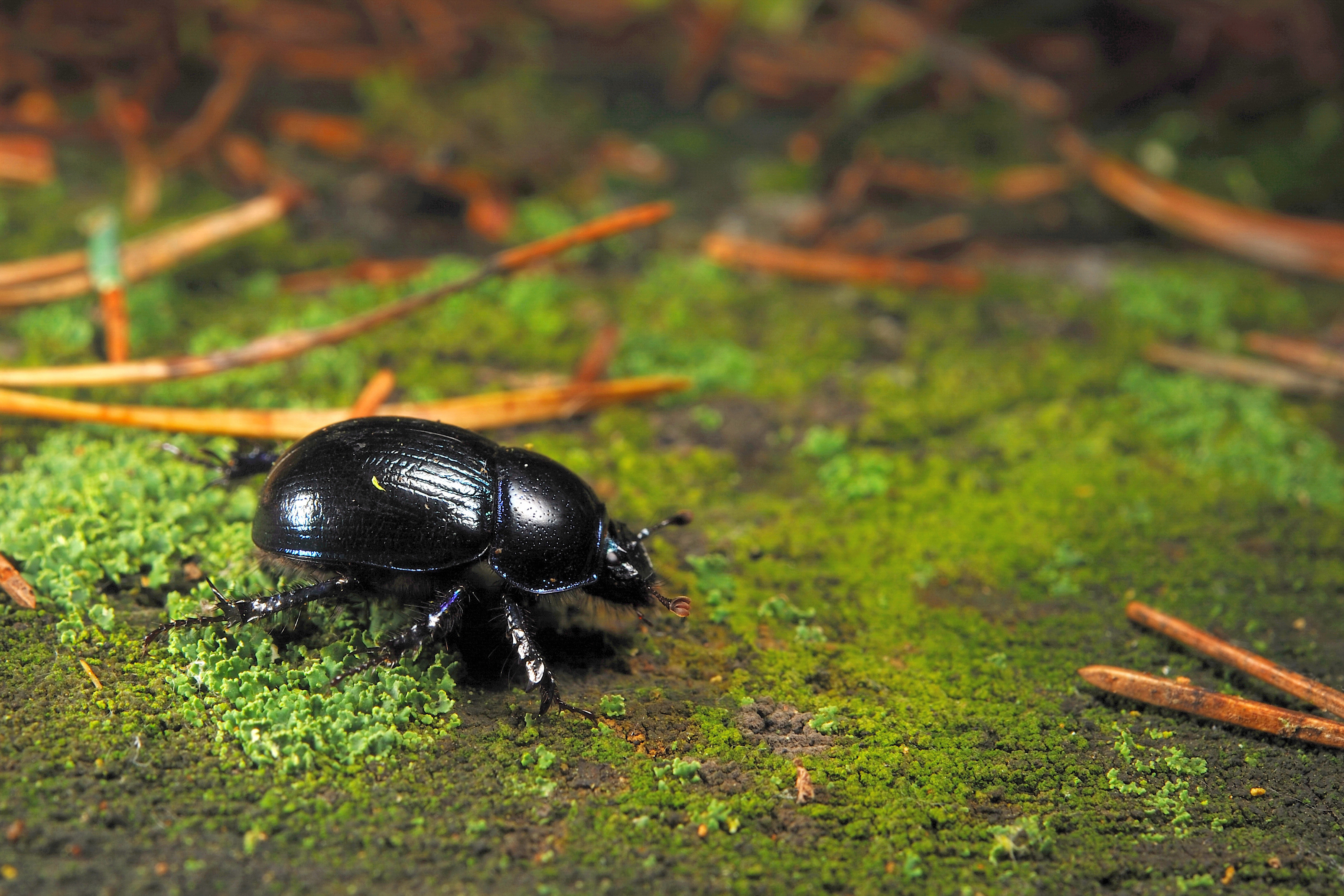 Anoplotrupes stercorosus, earth-boring dung beetle (family : Geotrupidae). Image was made in Vassivere forest, Laekvere Parish, Lääne-Viru County, Estonia.)